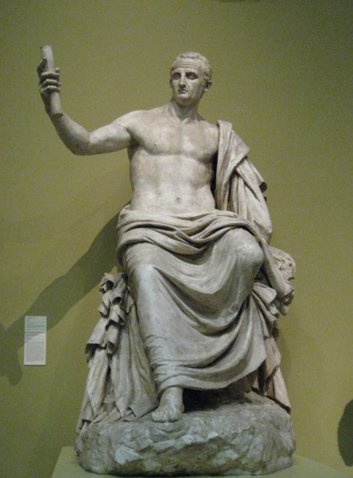 Emperor Galba. Plaster cast in Pushkin museum after original in Vatican Museums, an Ancient Roman statue of an emperor, heavily "restored" by Bartolomeo Cavaceppi as a portrait of emperor Galba.